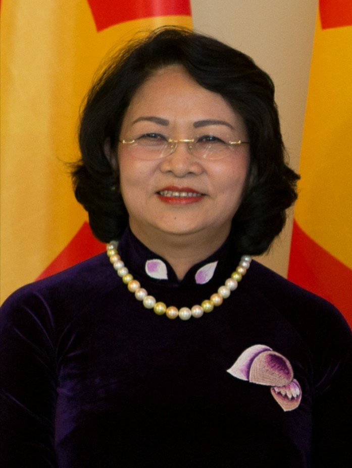 Vice President of Vietnam, Mrs. Dang Thi Ngoc Thinh